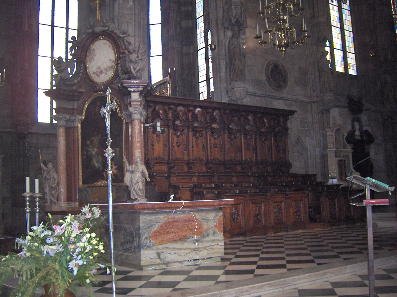 Choir of the Stephansdom in Vienna, Austria